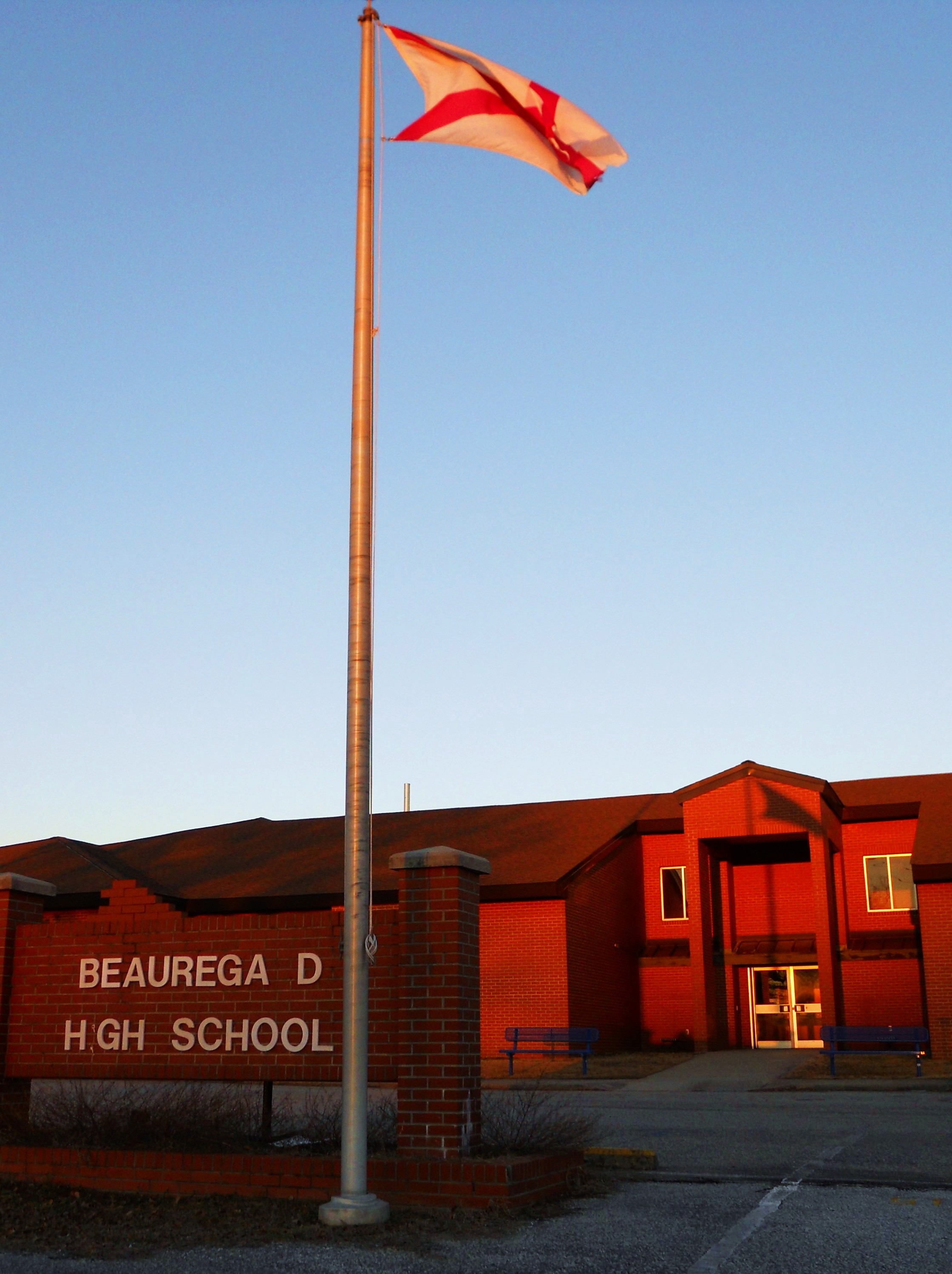 This is a photo of Beauregard High School in Beauregard, Alabama.